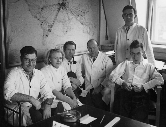 Niels K. Jerne was assistant to Ole Maaløe at Statens Seruminstitut. This photo of 1950, taken from Jernes' private collection, shows Maaløe in the middle with a pipe and Jerne at the window; the DNA discoverer James Watson sits in front of him.